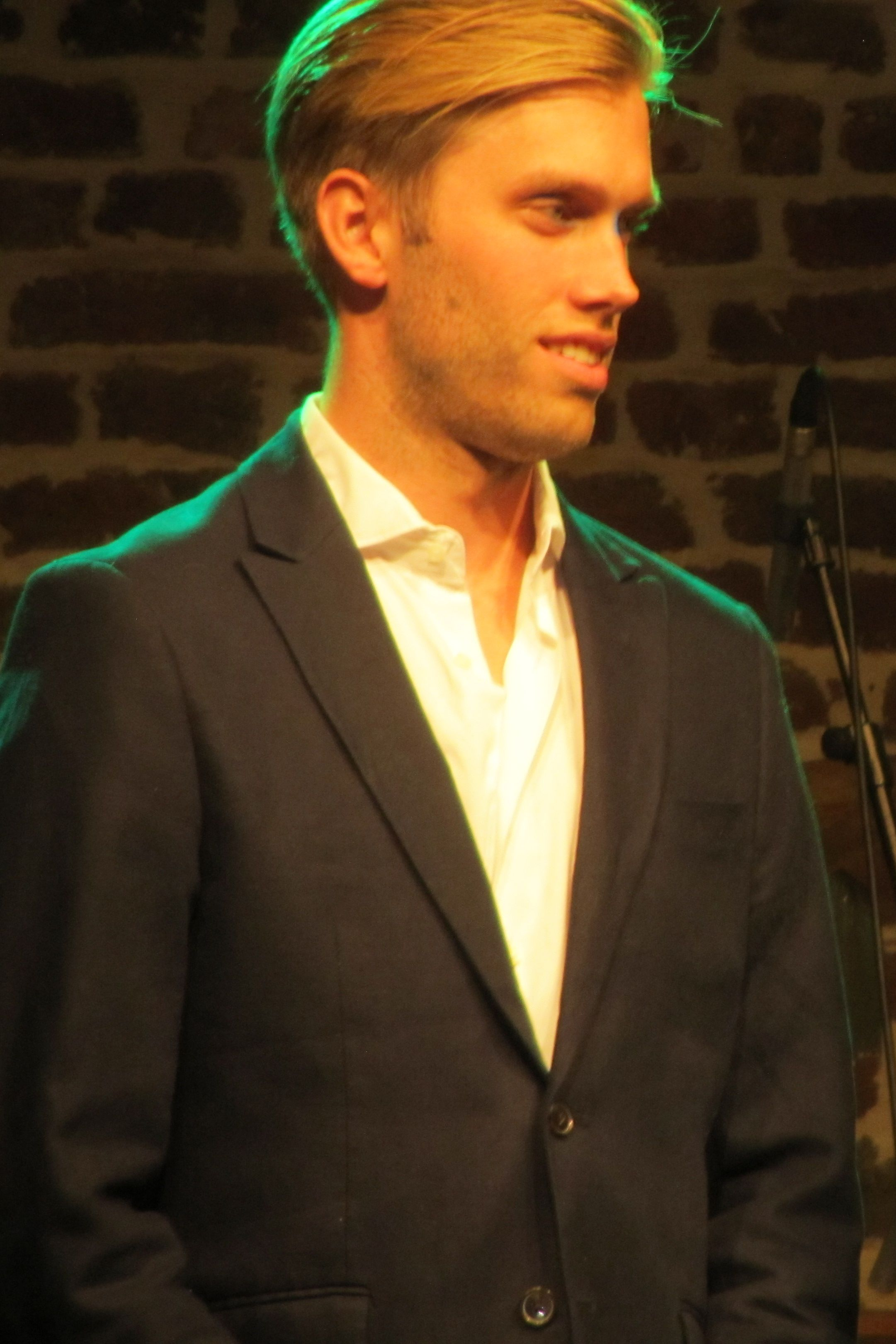 Anton Brams (born Willert), coach of the German volleyball Bundesliga team SWD Powervolleys Düren, at the jubilee "50 years of Volleyball in Düren"